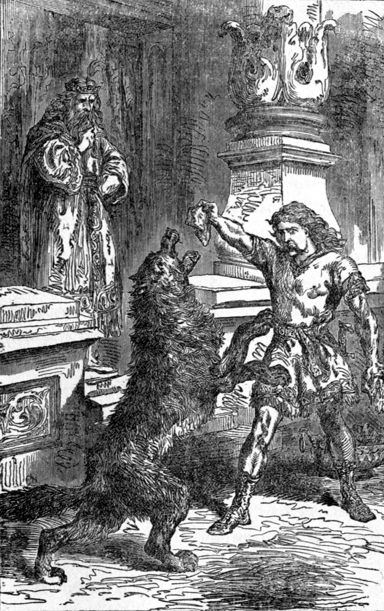 Tyr feeding Fenrir (the title given to this illustration in the book)